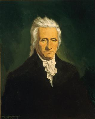 Gabriel Duvall (1811-1835), Associate Justice, U.S. Supreme Court, The Collection of the Supreme Court of the United States.